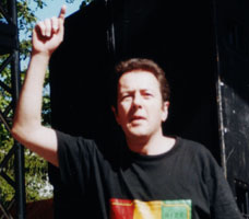 Joe Strummer performing in Provinssirock 1999.